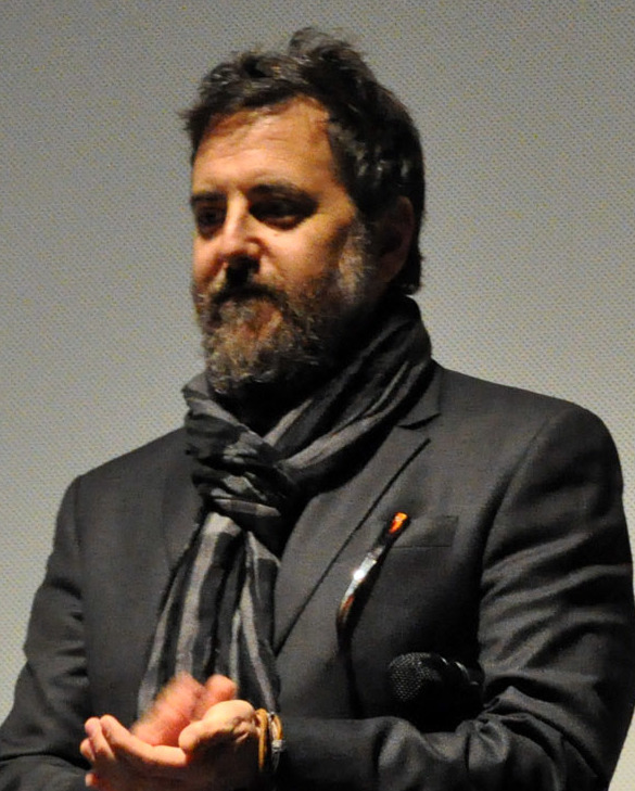 Mark Romanek and Andrew Garfield at the screening of Never Let Me Go at the 2010 Toronto International Film Festival. (Photo taken September 11, 2010.)